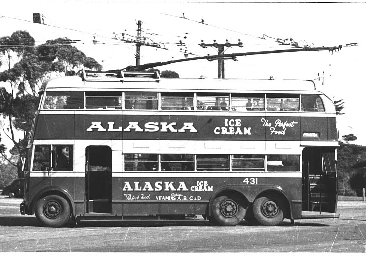 A side view of trolleybus number 431 in Adelaide, South Australia.